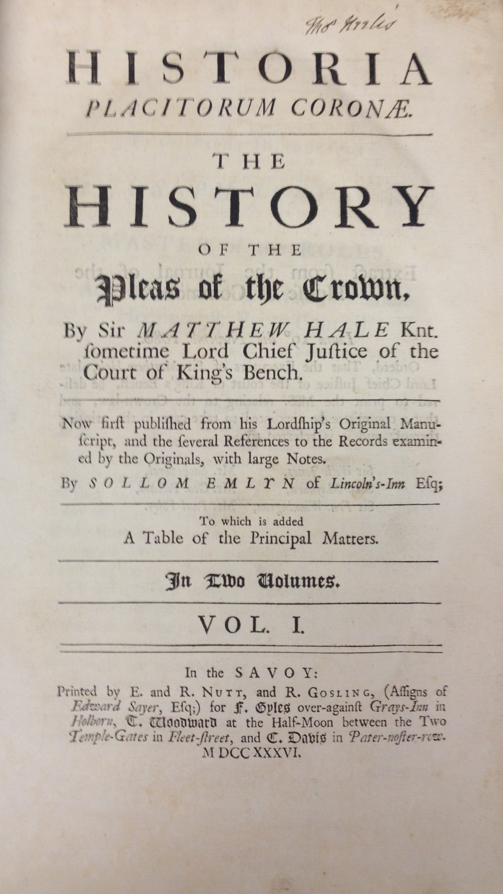 Title page of Matthew Hale (1736) Historia Placitorum Coronæ: The History of the Pleas of the Crown, by Sir Matthew Hale Knt. Sometime Lord Chief Justice of the Court of King’s Bench. Now First Published from his Lordship's Original Manuscript, and the Several References to the Records Examined by the Originals, with Large Notes. By Sollom Emlyn of Lincoln's-Inn Esq. To Which is Added a Table of the Principal Matters. In Two Volumes, 1 (1st ed.), London, in the Savoy: Printed by E. and R. Nutt, and R. Gosling (assigns of Edward Sayer, Esq.), for F. Gyles, T. Woodward, and C. Davis OCLC: 831163641.